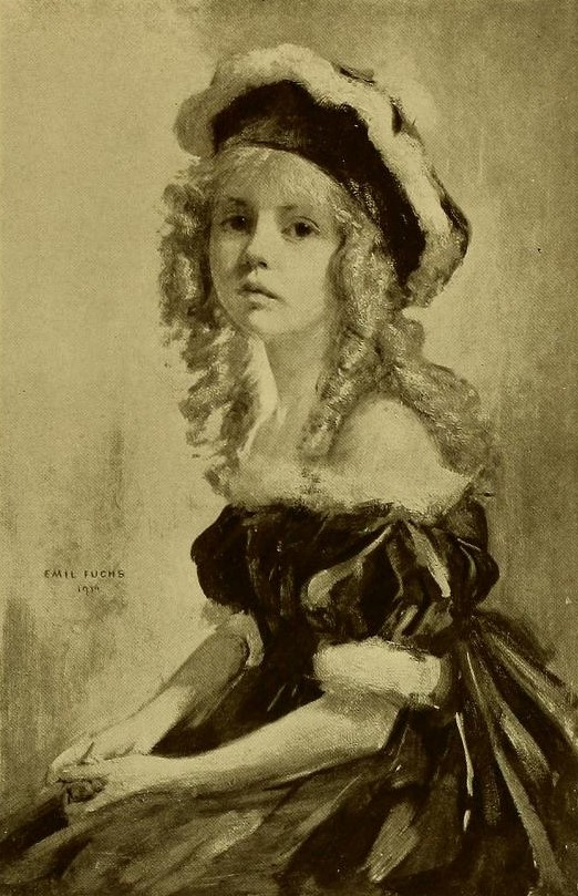 Portrait of child actress Ethelmary Oakland, by Emil Fuchs, 1916